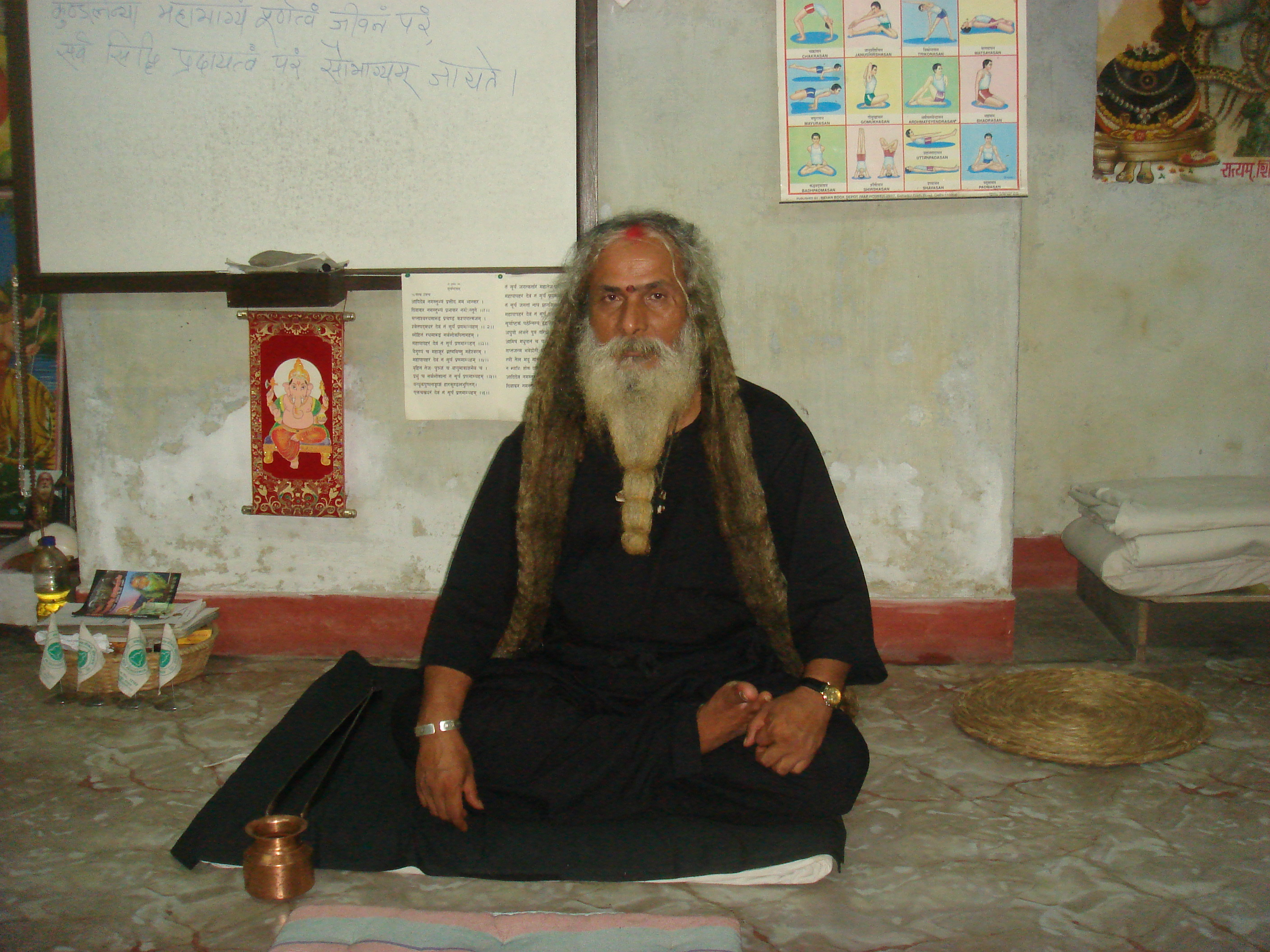 Chandi Baba, a saint in Nepal